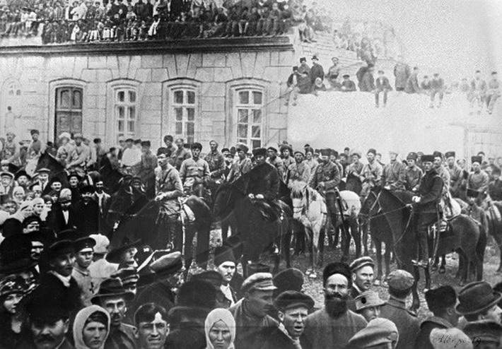 Red Army soldiers in Baku